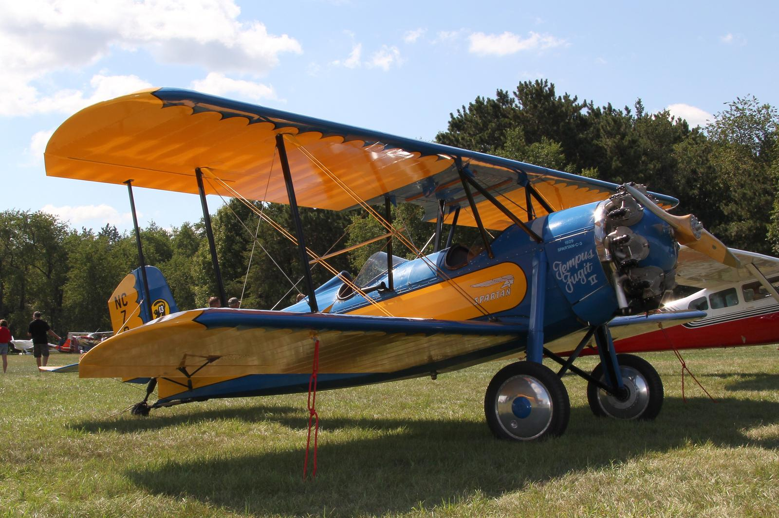 1929 Spartan C3-165 C/N 149